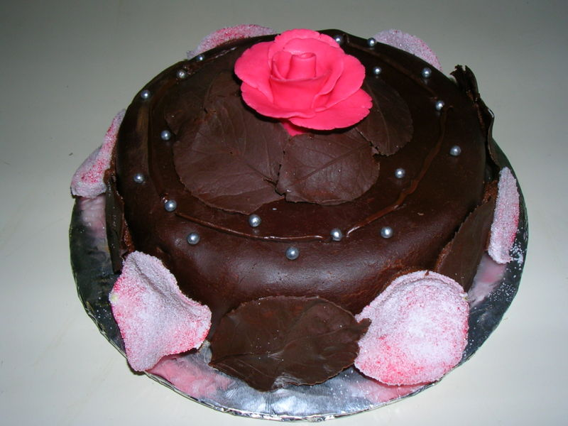 A cake decorated with "chocolate plastic," a fondant rose and chocolate leaves. Photograph and cake created by Mary-Irene Lang, who released it into public domain on the English Wikipedia with worldwide applications of the release.